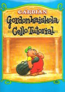 Gárdián Gábor: Cello School Volume cover